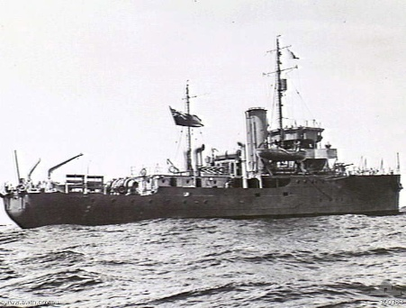 Australian War Memorial image 300383. HMAS Bathurst the day before she was commissioned into service with the Royal Australian Navy